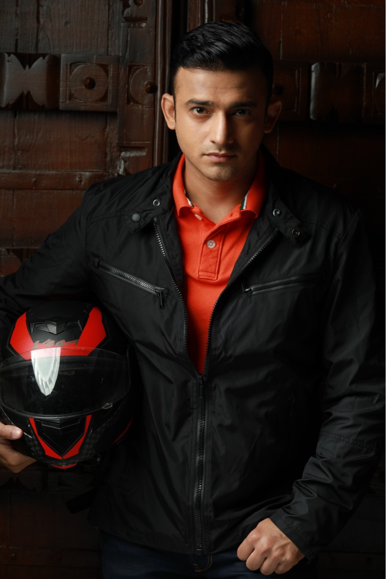 Romit with Helmet